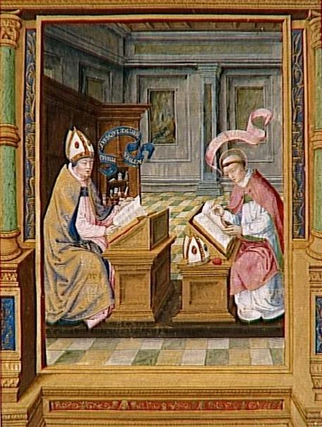 Saint Augustin and saint Cyrille of Jerusalem.